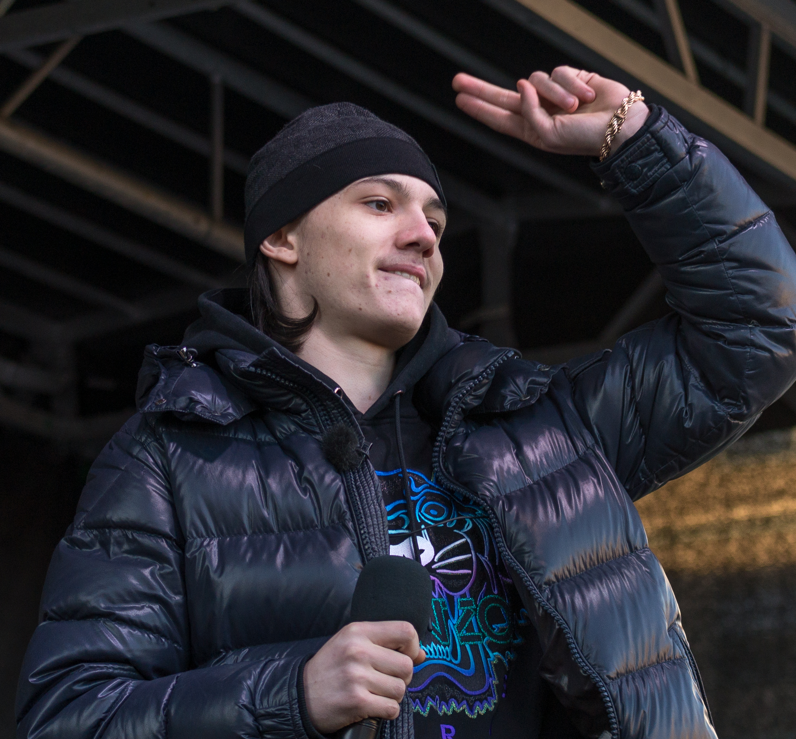 Fridays For Future in Stockholm in February 2020